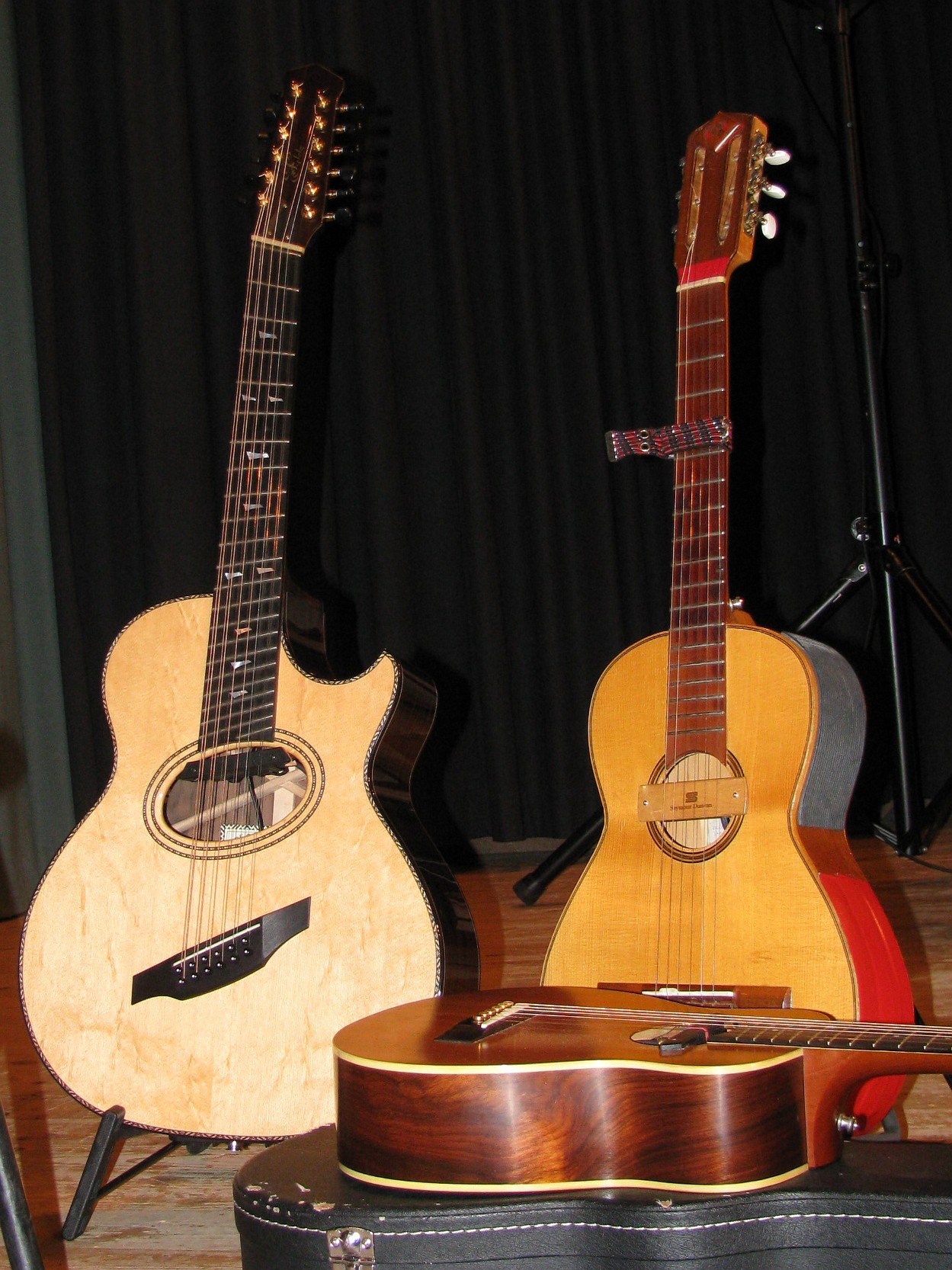 Special design of a guitar with fanned frets, owned by Gordon Giltrap